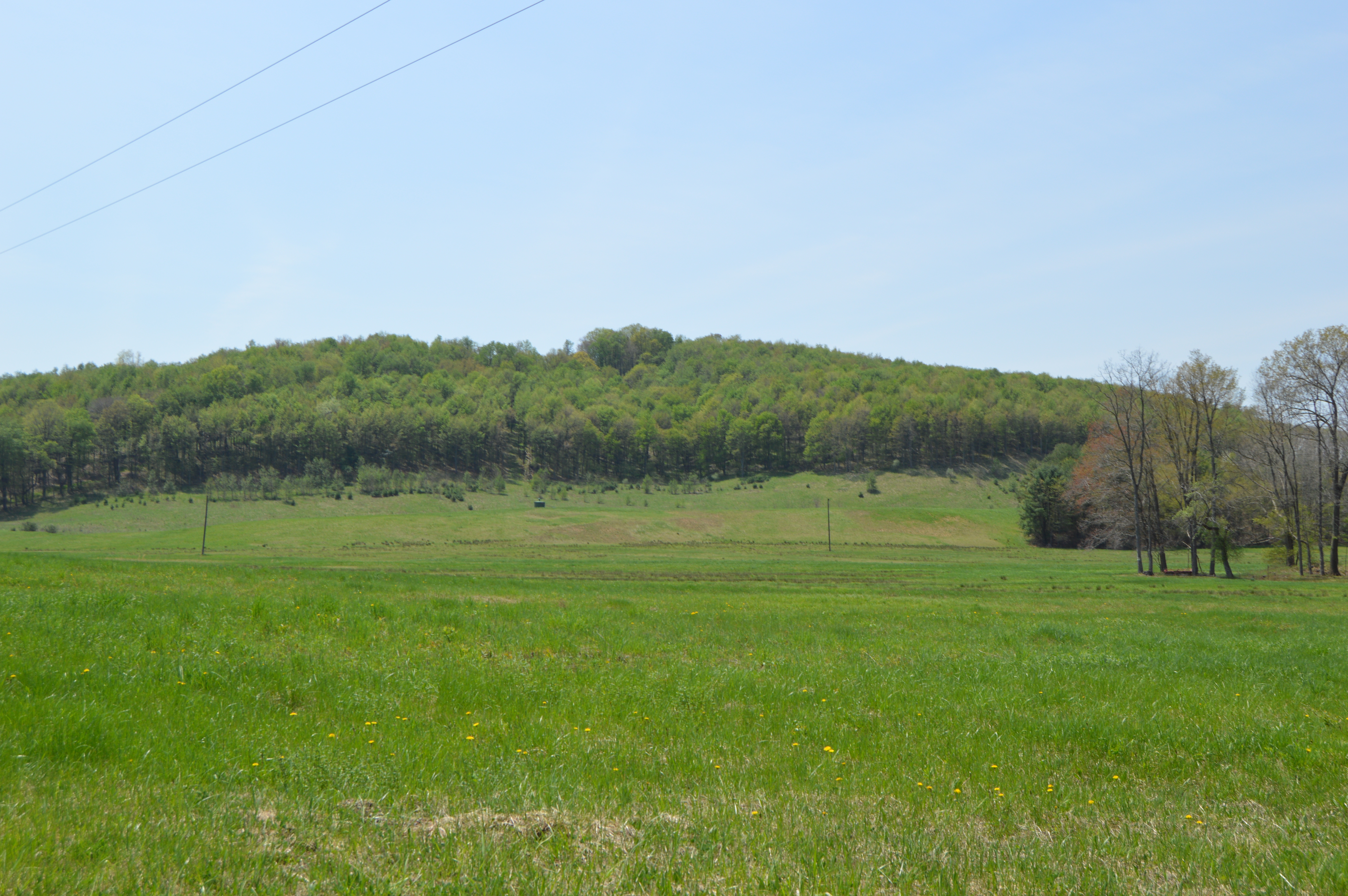 Fields and hills seen looking southwest from Burns Road in far southeastern Grant Township, Indiana County, Pennsylvania, United States.